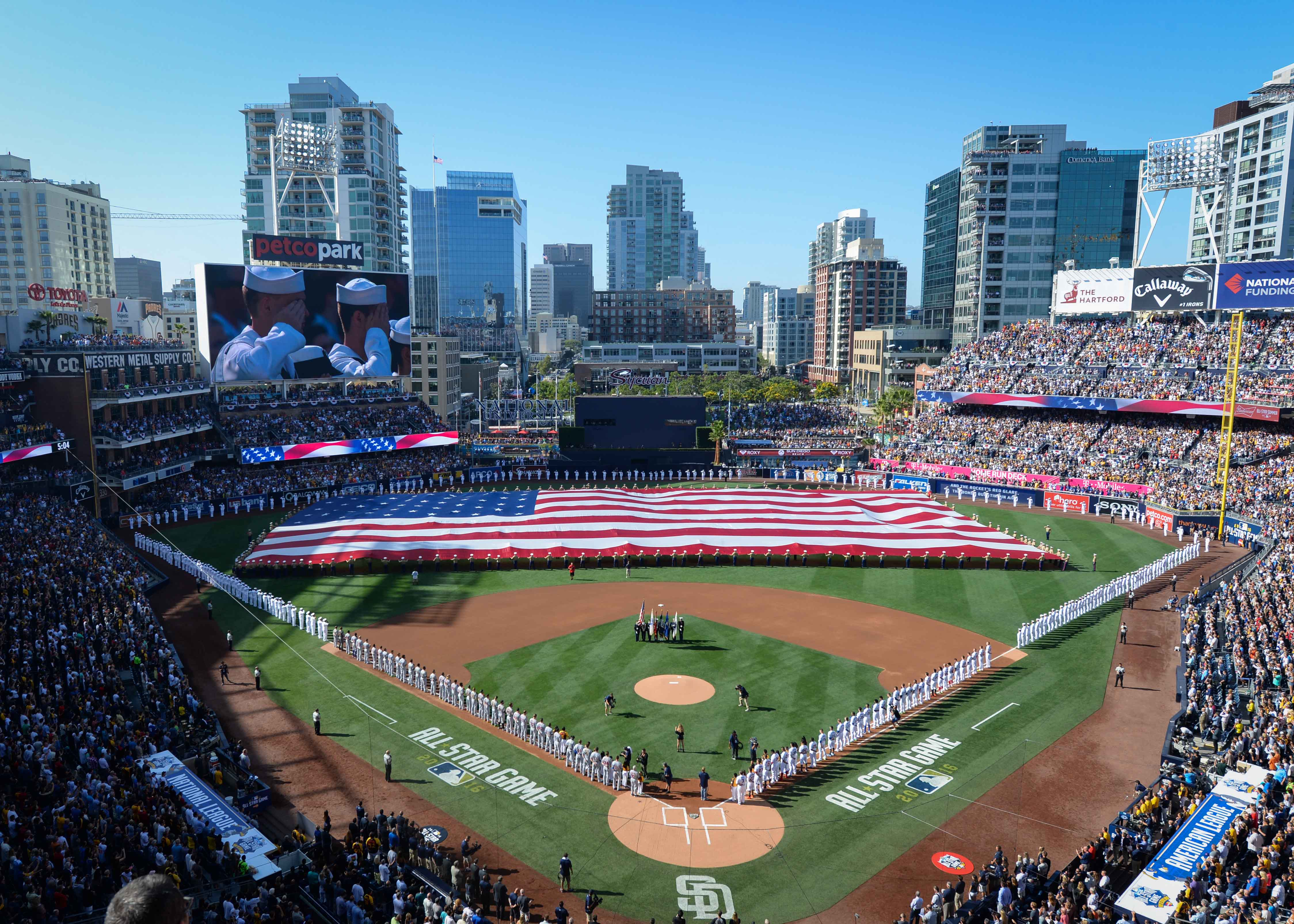 160712-N-NV908-496 SAN DIEGO (July 12, 2016) Sailors man the rails while Marines hold up the American flag during the pre-game ceremony of the 2016 Major League Baseball All-Star Game at Petco Park. Sailors from the aircraft carrier USS Theodore Roosevelt (CVN 71) and Marines from the 3rd Marine Aircraft Wing joined together to participate in a salute to the United States Armed Forces. (U.S. Navy photo by Mass Communication Specialist 3rd Class Chad M. Trudeau)